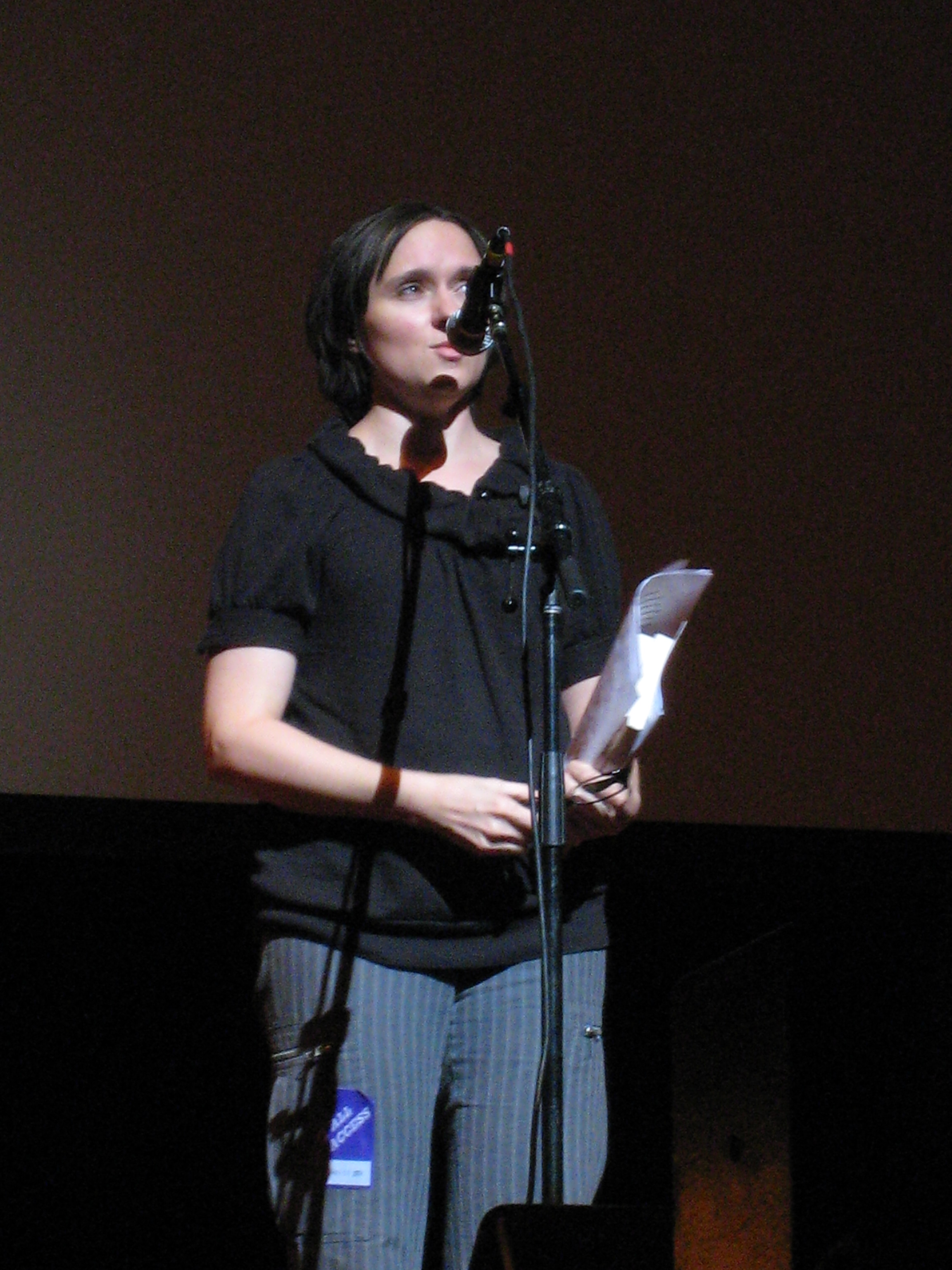 Sarah Vowell @ Revenge of the Bookeaters.Sarah Vowell @ Revenge of the Bookeaters